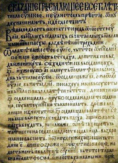 First page of Nicodim's «Tetraevangheliar»